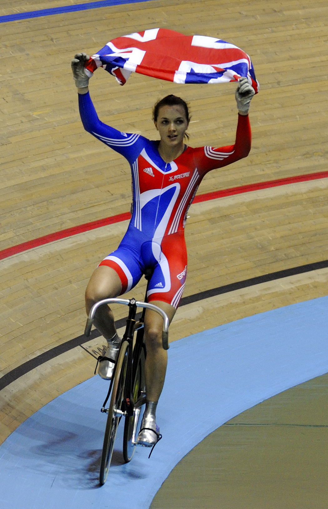 Another day at work